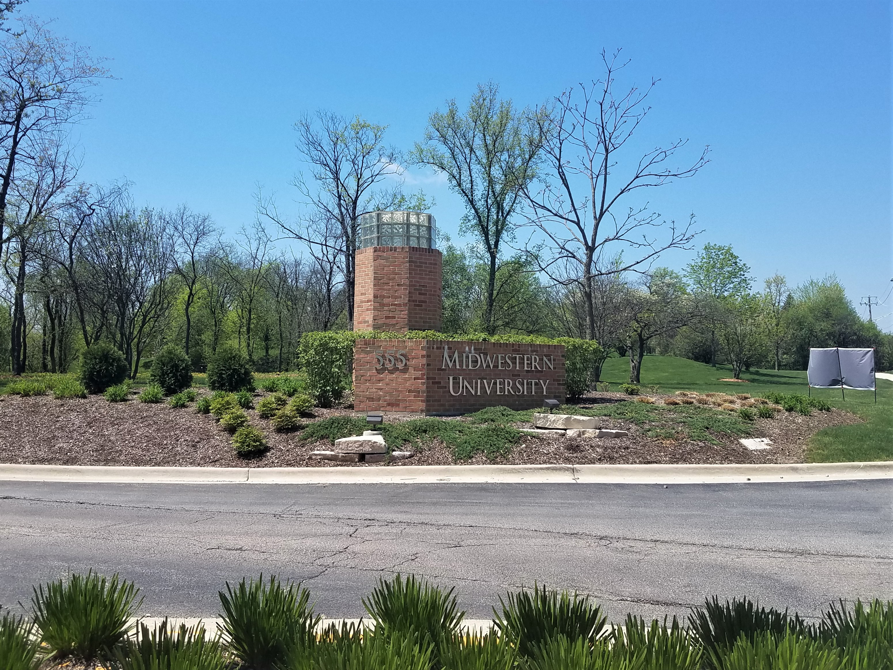 This is the main entrance to the Downers Grove campus of Midwestern University.